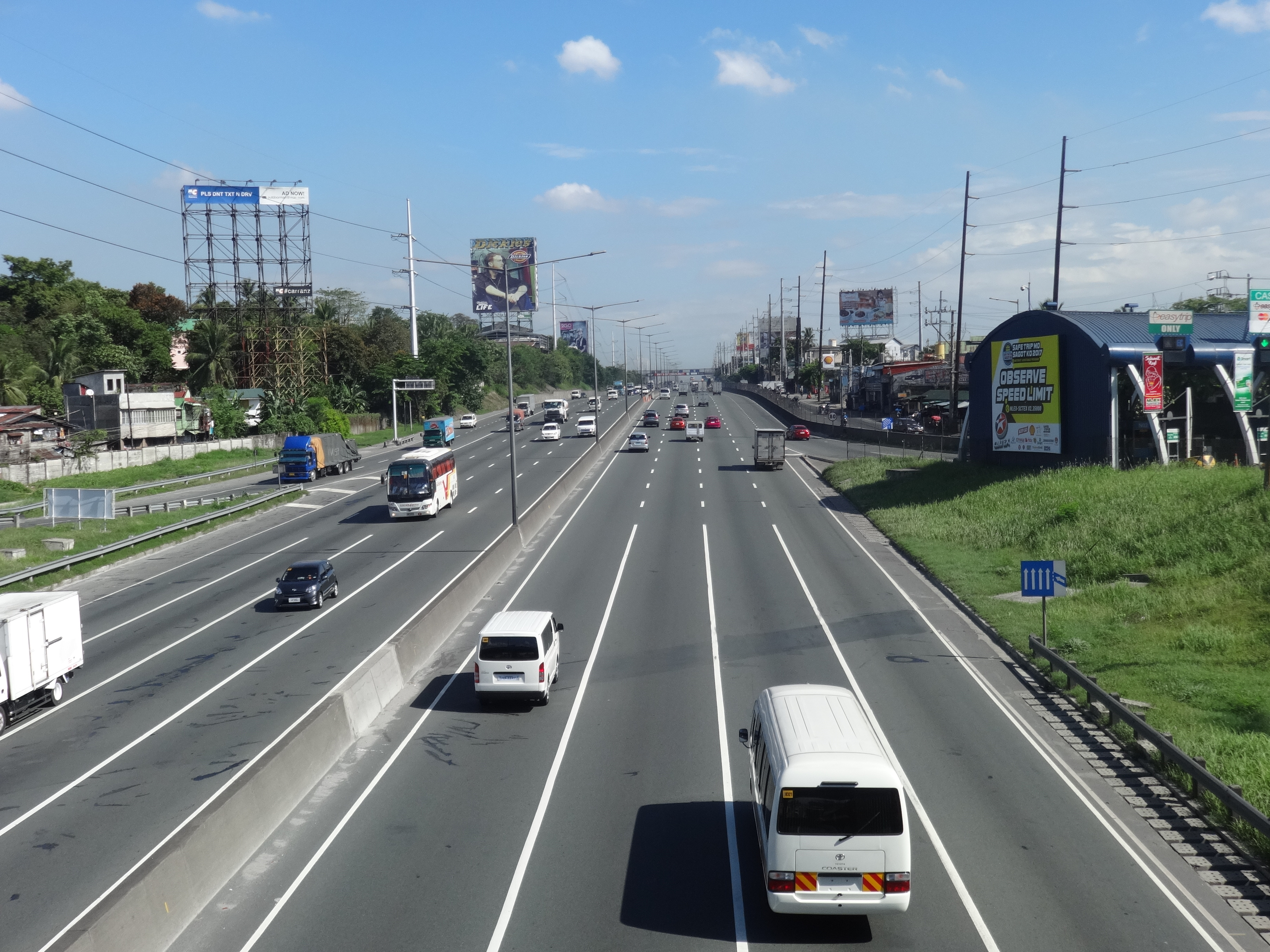 North Luzon Expressway (NLEX) in Valenzuela City. NLEX is a toll road that parallels McArthur highway (Manila North Road) in Bulacan and Pampanga.